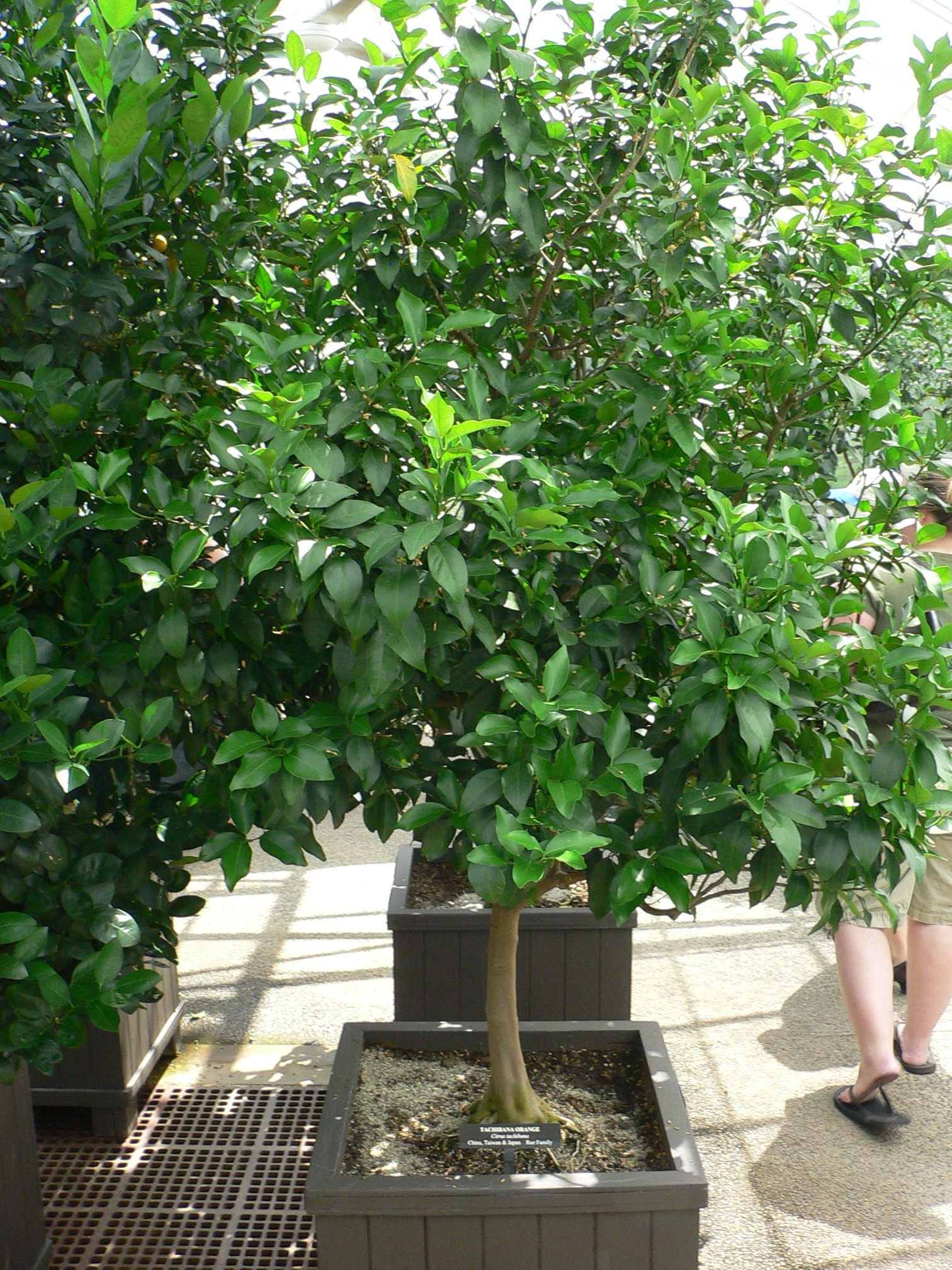 Citrus tachibana. Pictures taken by myself at Longwood Gardens